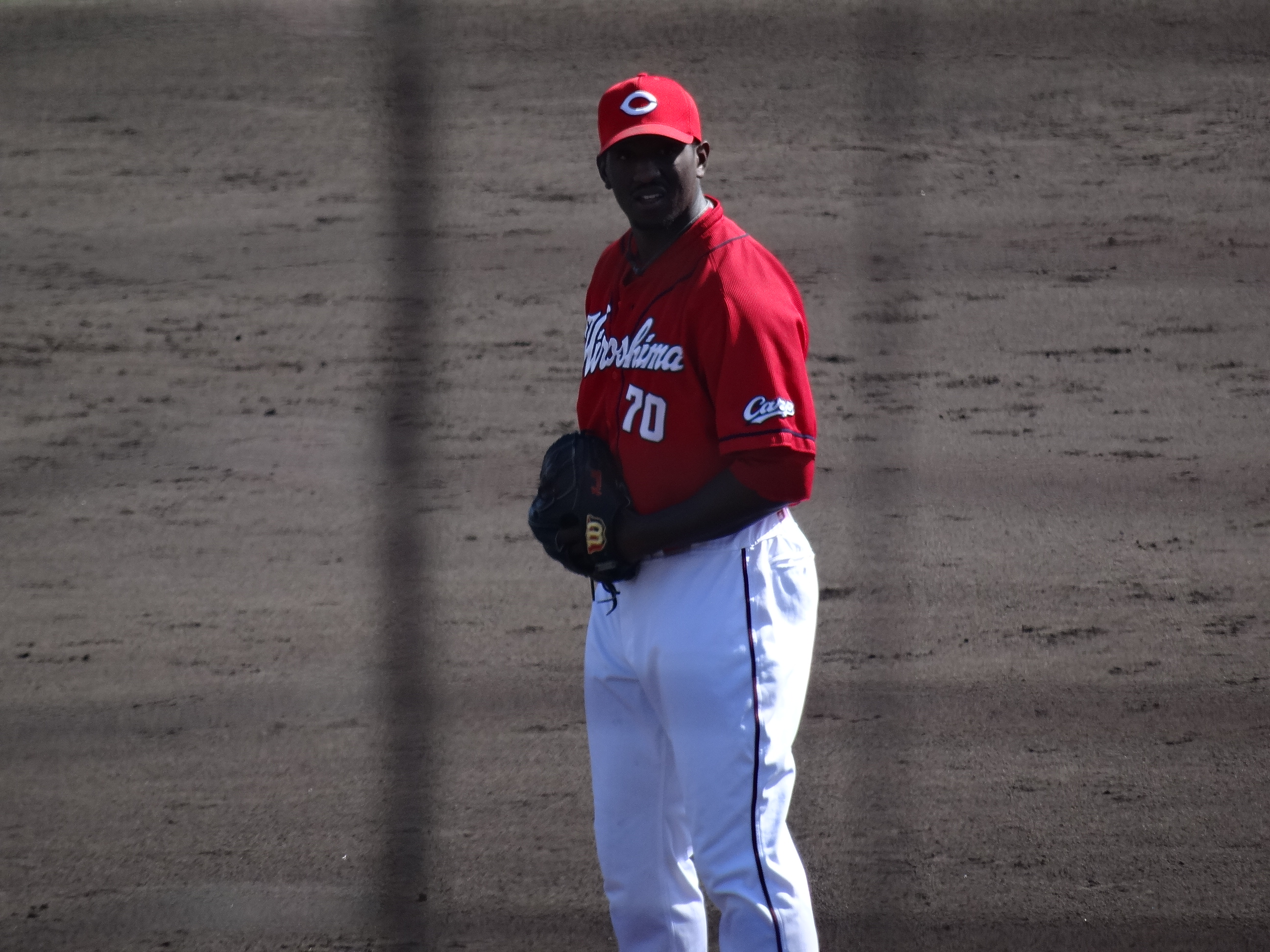 Deunte Heath, pitcher of the Hiroshima Toyo Carp, at Kobe Sports Park Sub Baseball Ground.